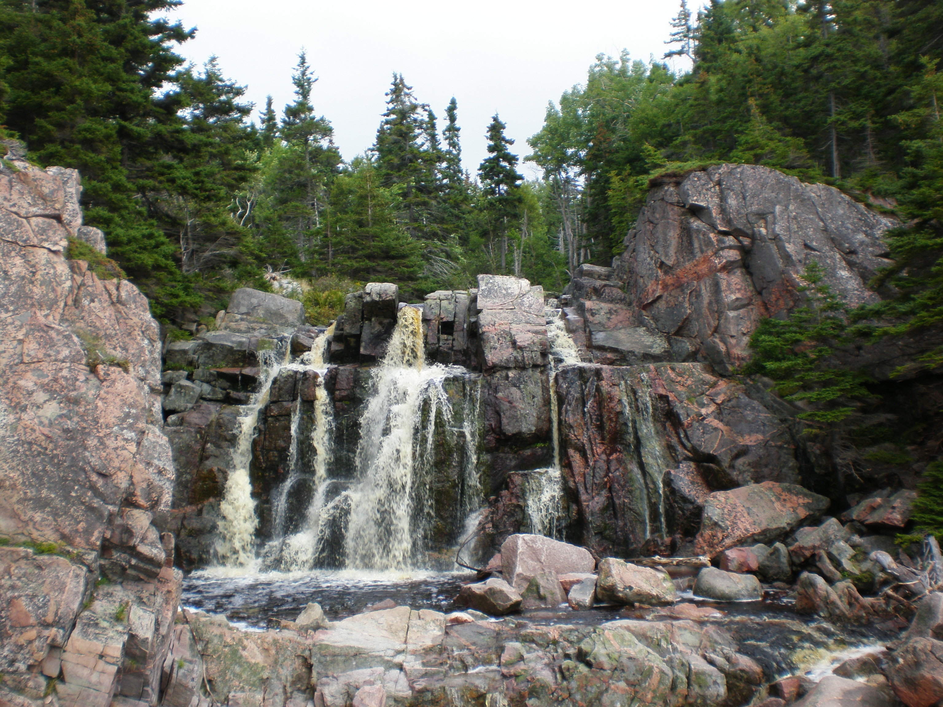 Still Brook Waterfall is a waterfall at mouth of Still Brook, where the brook empties into Black Brook Cove, and so into the Atlantic Ocean. Still Brook Waterfall flows into Black Brook Cove at the north end of Ringing Beach and Black Brook Beach, a popular swimming and picnic site on the Cabot Trail in the Cape Breton Highlands National Park, 10 kilometres (6 mi) north of Ingonish, Nova Scotia, Canada. The larger Black Brook also enters the cove, at the southern end of the beach.